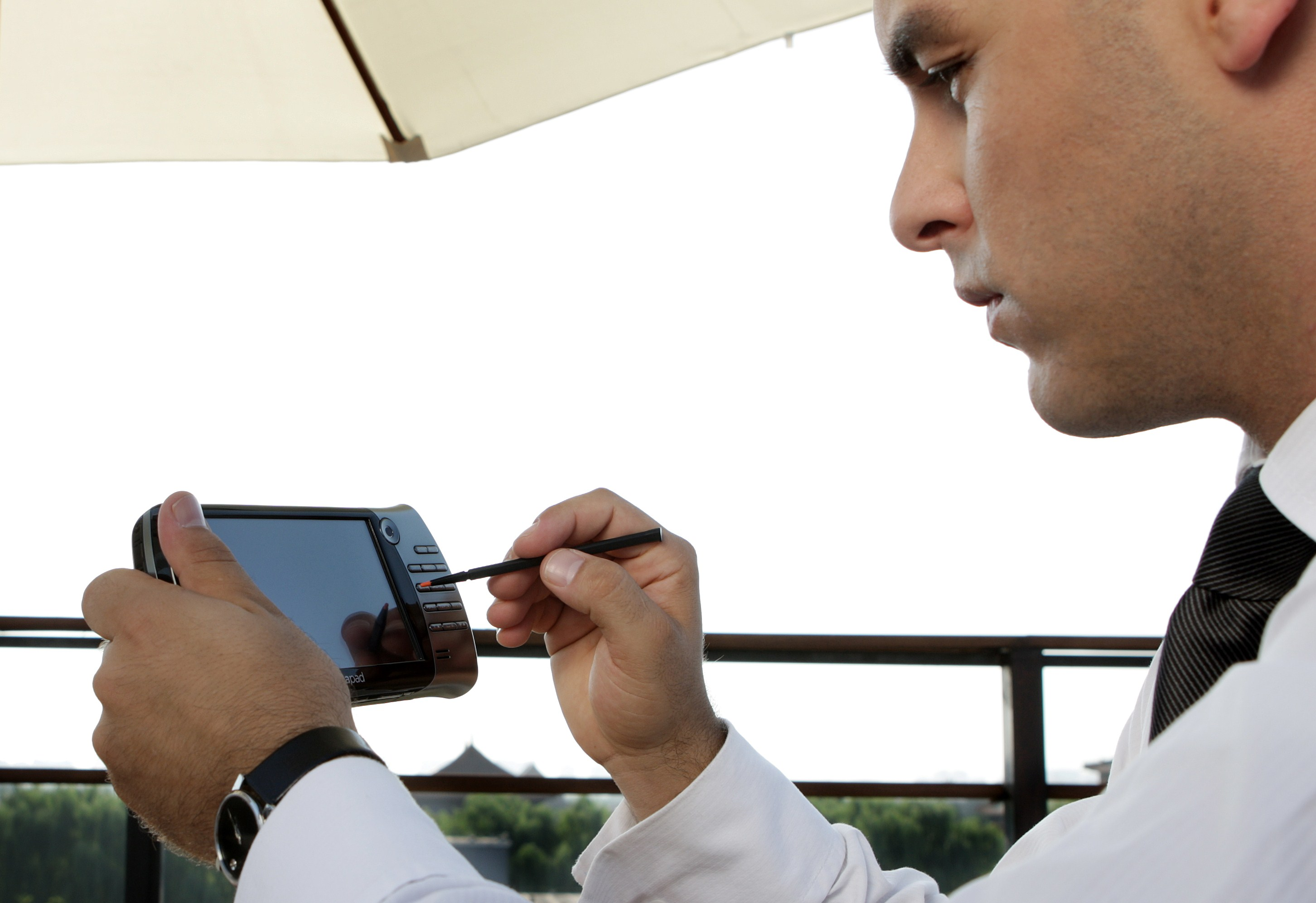 Lenovo Ideapad U8 MID example